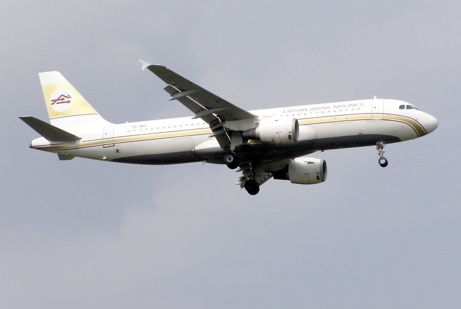 Libyan Arab Airlines Airbus A320-200 (TS-INJ) landing at London Heathrow Airport, England. Photographed by Adrian Pingstone in September 2005 and released to the public domain.